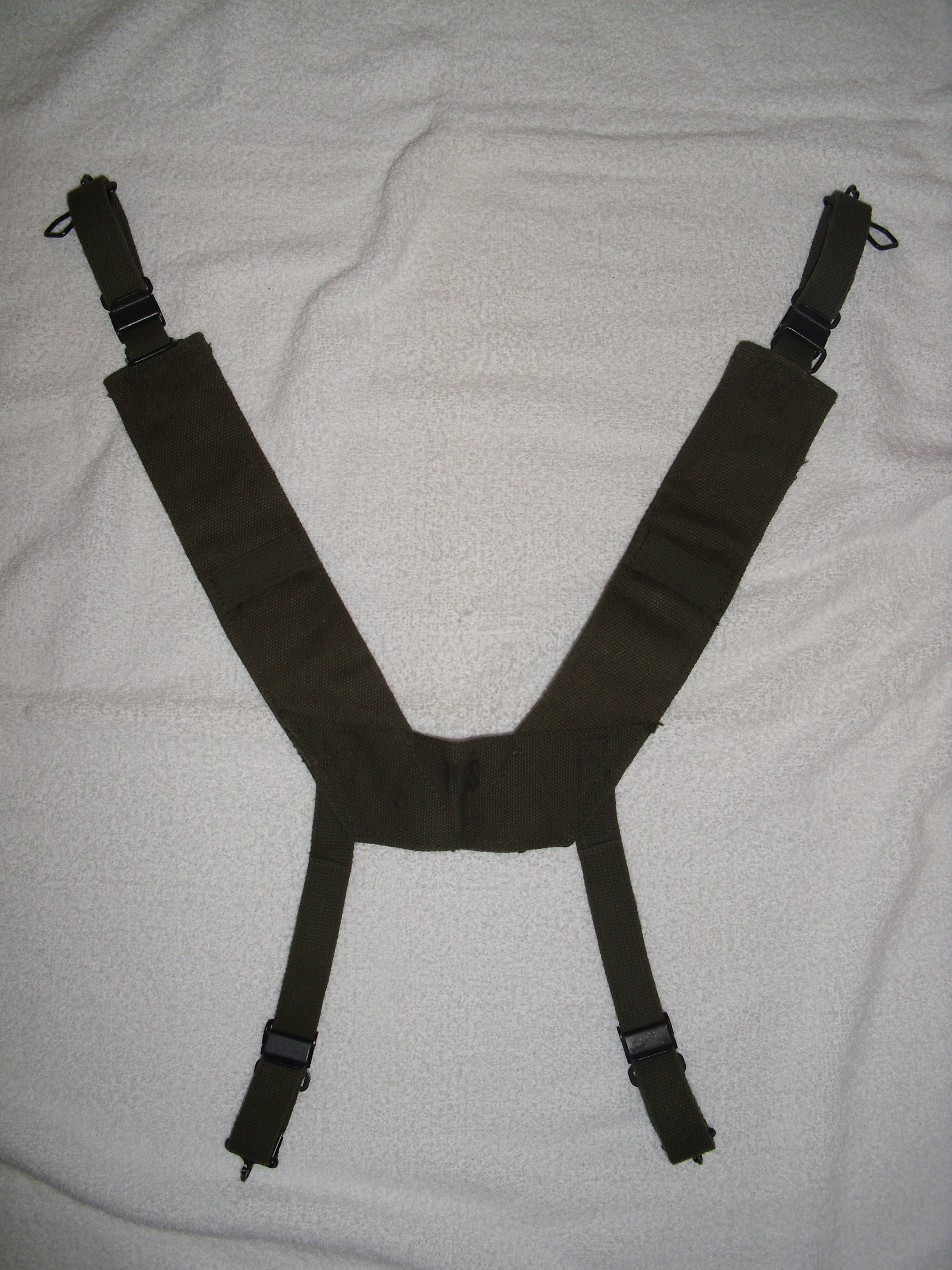 Suspenders, field pack, combat M1956